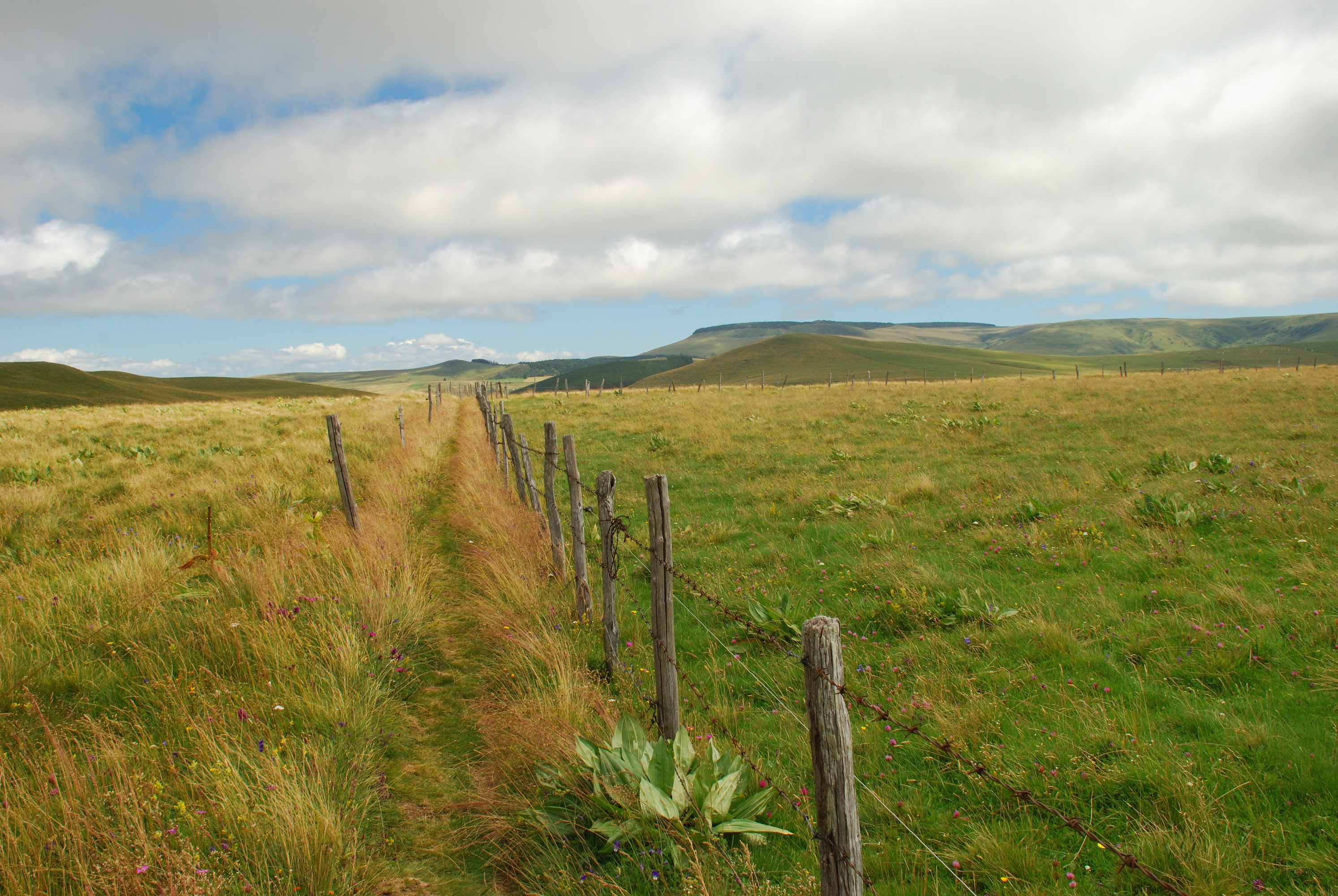 View of the Cézallier near the village of La Godivelle (Puy-de-Dôme, France. Translations in other languages are welcome.